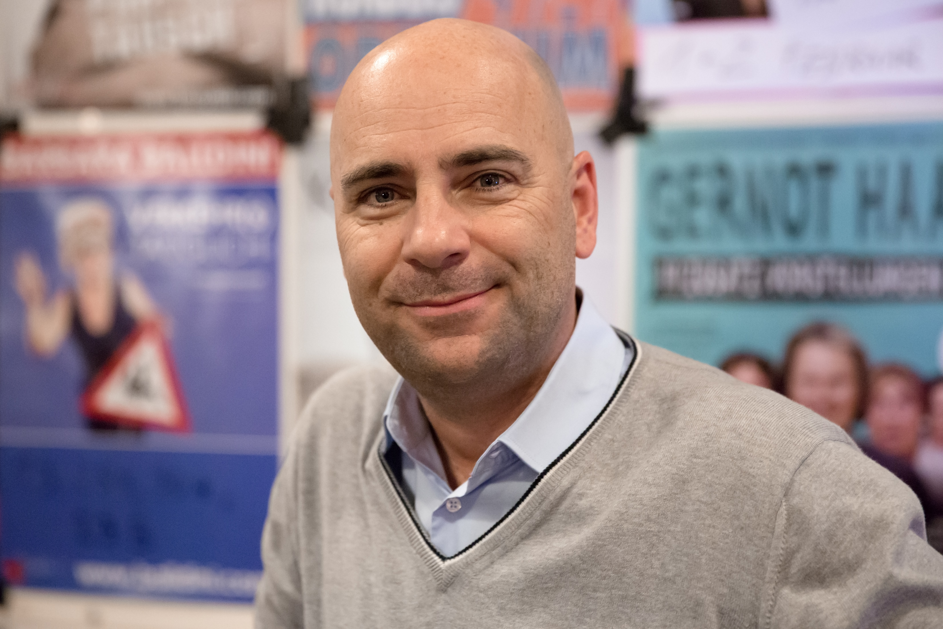 Reinhard Jesionek, guest at the premiere of Nina Hartmanns comedy program 'Schön, dass es mich gibt' at Orpheum in Vienna, Austria.